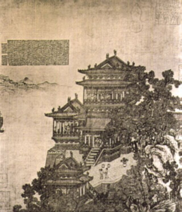 the tengwanggedrawing from Song